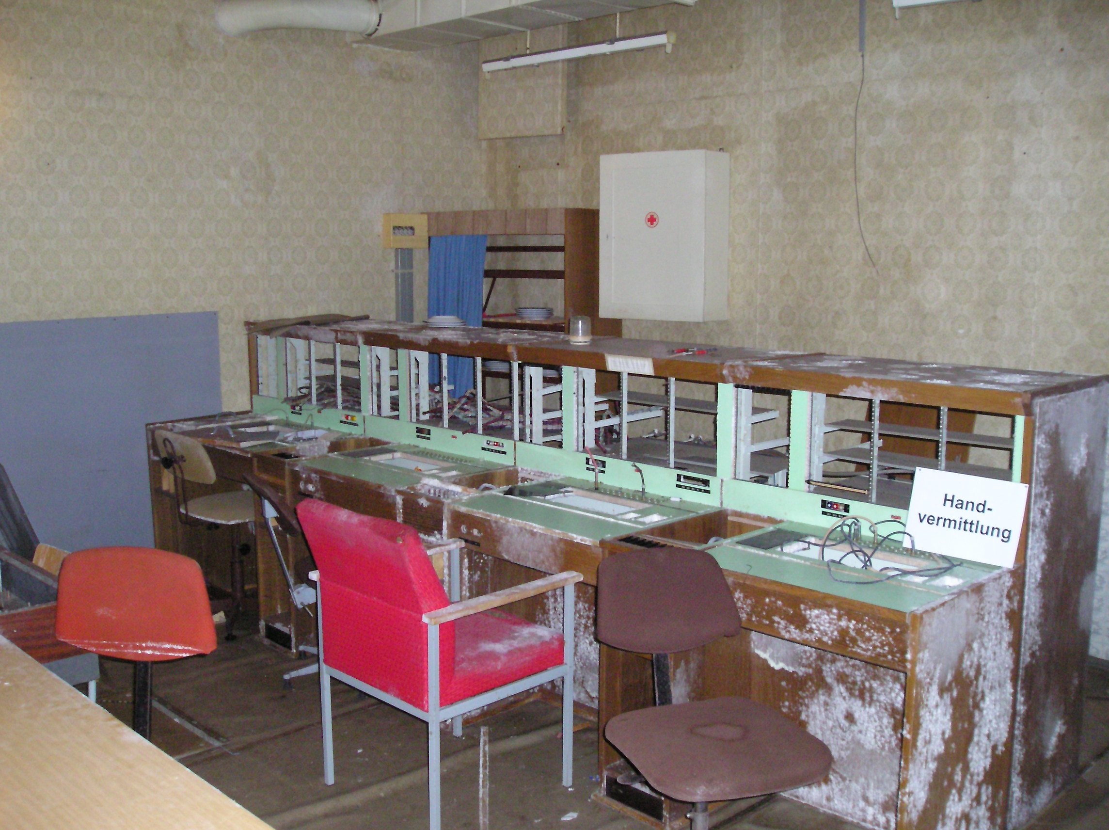 Object 17/5001 shelter in Prenden, Germany - Telephone exchange